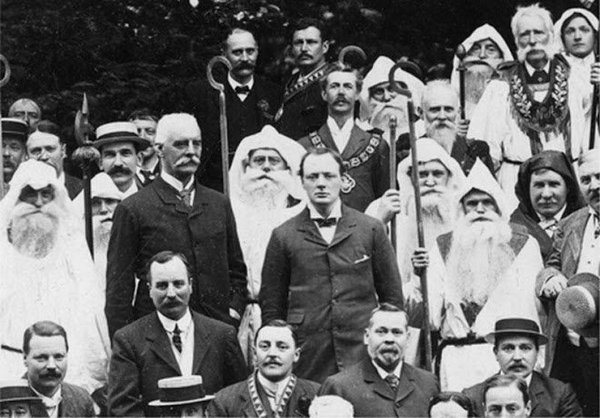 Churchill and the Ancient Order of the Druids